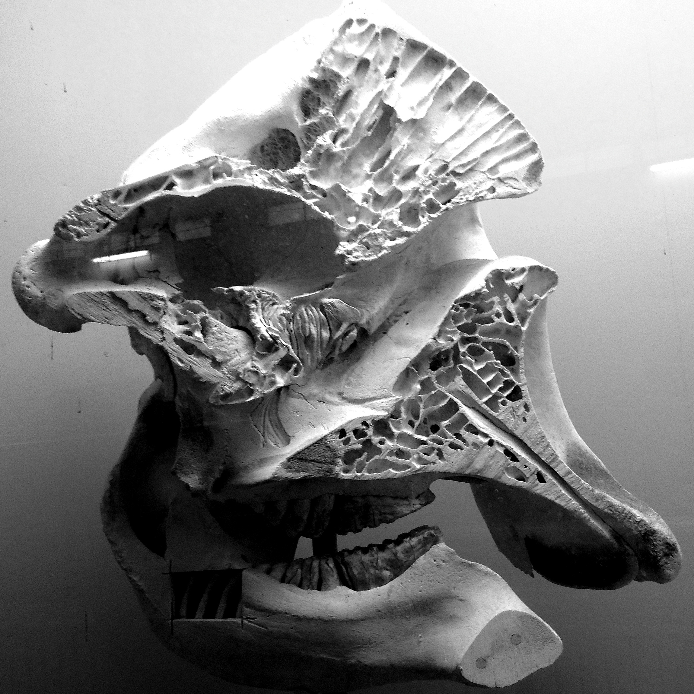 Elephant skull, Zoo of Basel (Switzerland), sagittal cutting